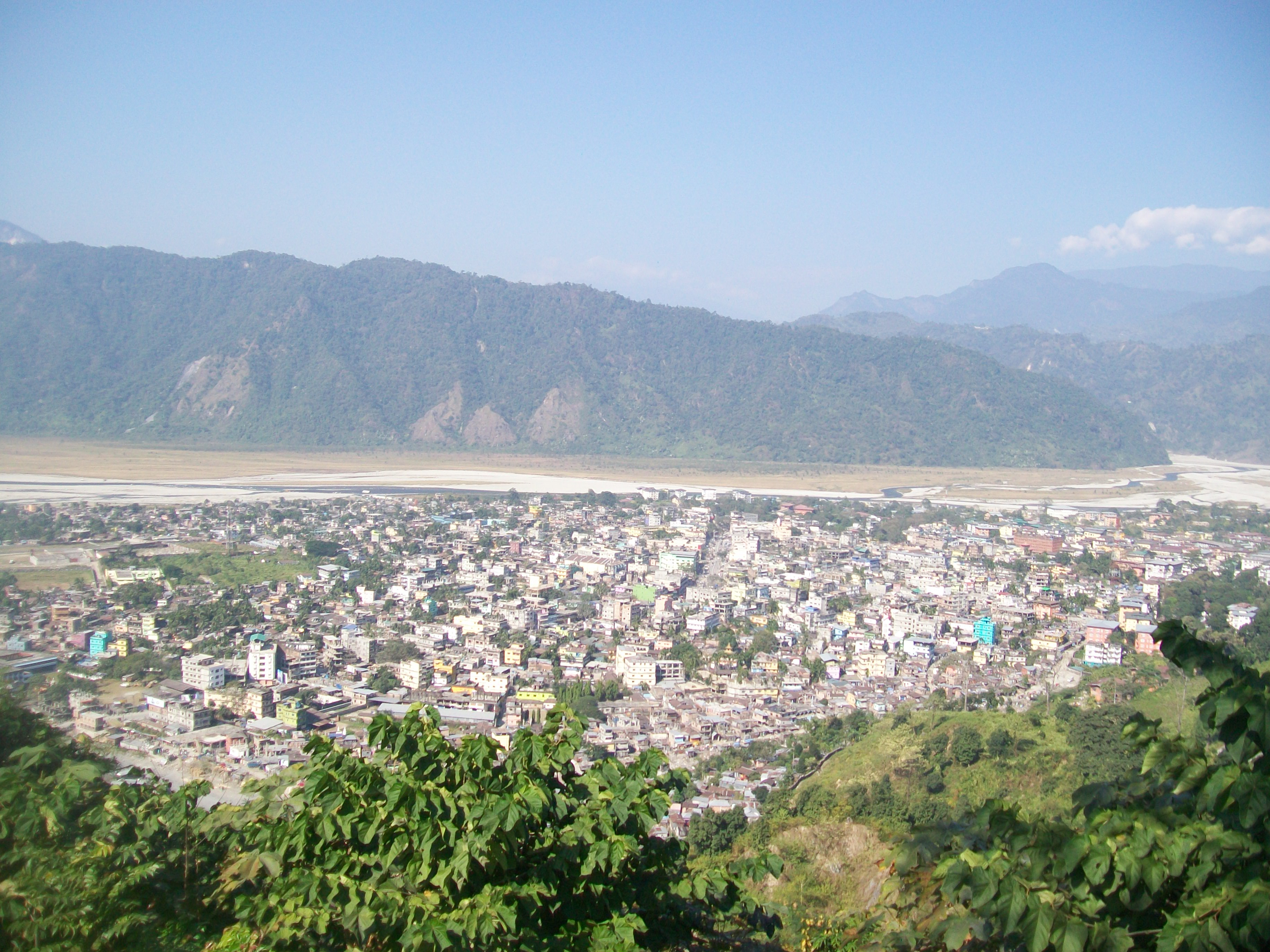 Phuntsholing town, Royal State of Bhutan